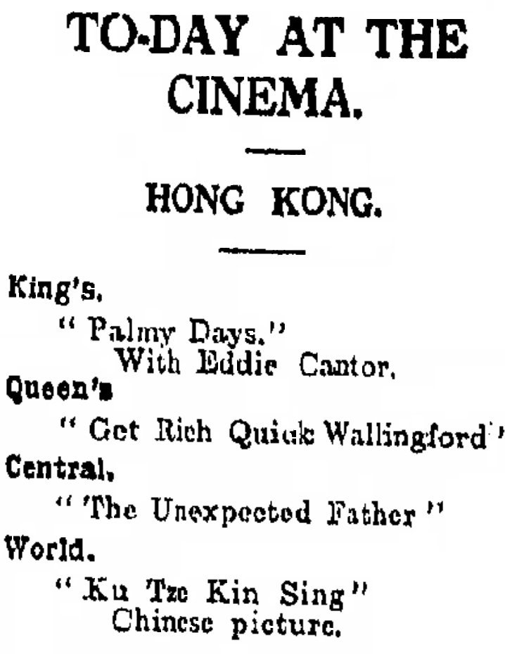 中文（香港）: 1932年4月12日，星期二，香港島上放映的電影： （1）娛樂戲院（King's Theatre）《Palmy Days（狂歡時節）》； （2）皇后戲院（Queen's Theatre）《New Adventures of Get Rich Quick Wallingford（騙徒艷福）》； （3）中央戲院（Central Theatre）《The Unexpected Father（高佬森娶老婆）》； （4）新世界戲院（New World Theatre）《古寺鵑聲（Ku Tze Kin Sing）》。